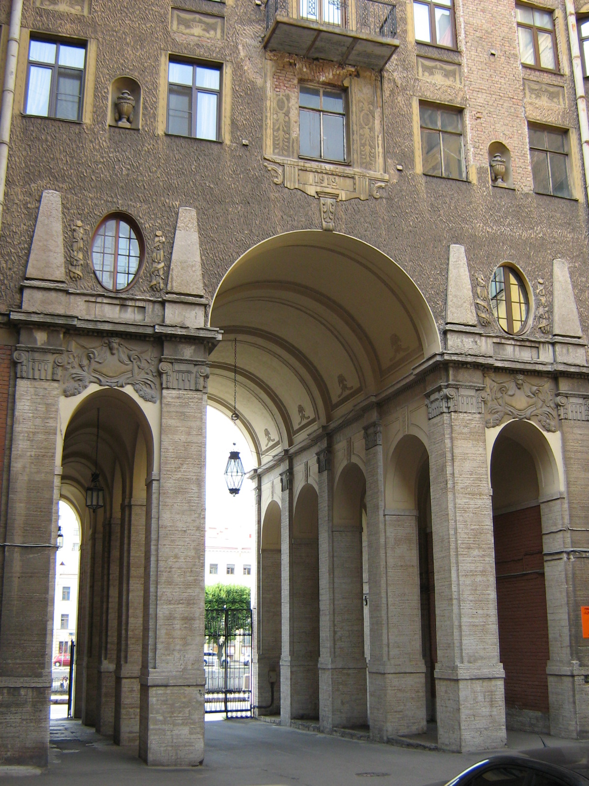 "Tolstovsky dom" (House of M.P.Tolstoy): an arch leading to Fontanka embankment. Saint-Petersburg, Russia. Architect Johann-Friedrich (Fedor) Lidval, 1910-1912.